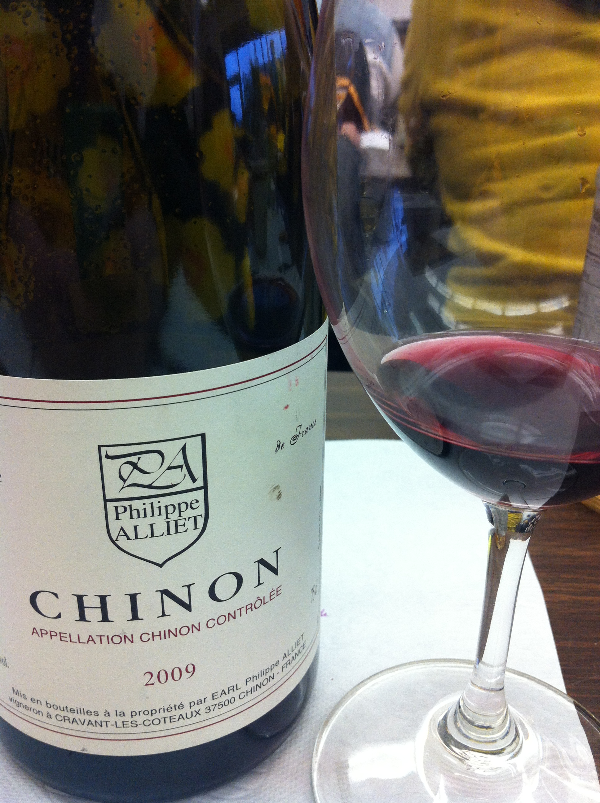 French Cabernet Franc wine made in the Loire Valley wine region of Chinon